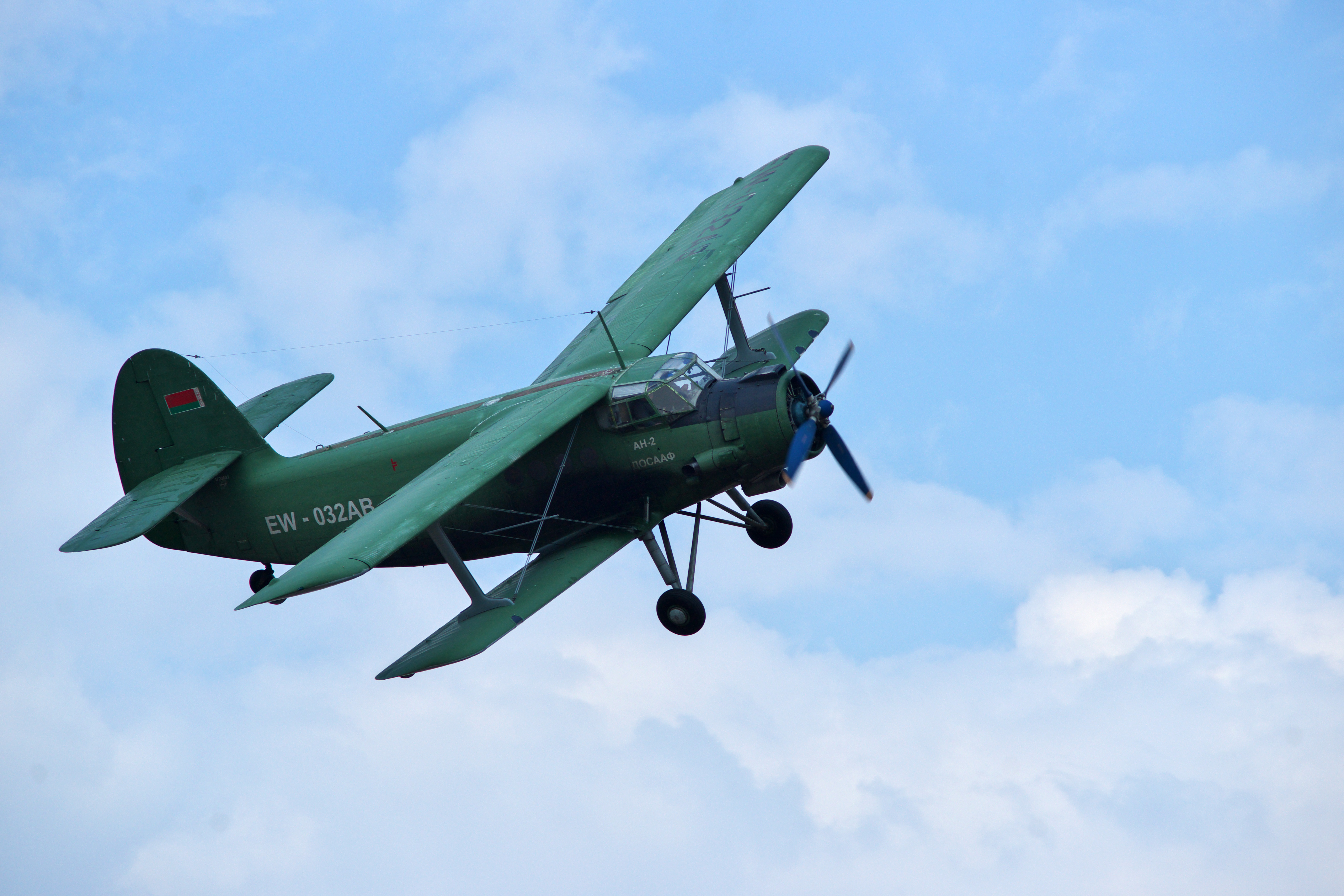 Antonov An-2 of Vitebsk DOSAAF in flight